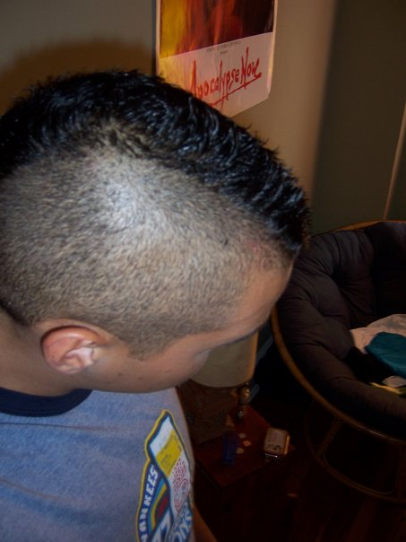 Example of a short Mohawk